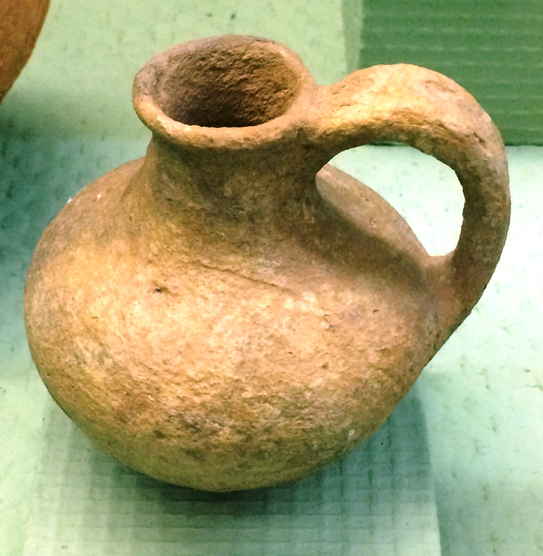 Artefact from the Hun period of Hungary (5th Century), found near Budapest. The Huns were a mongolic People who resided east of the Danube.